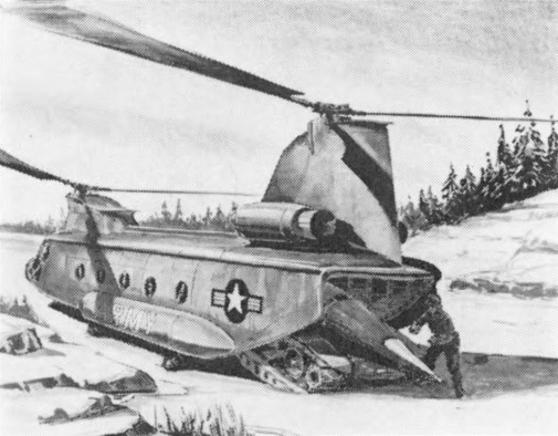 Artist's concept of the Army transport helicopter Vertol Aircraft YHC-1B Chinook